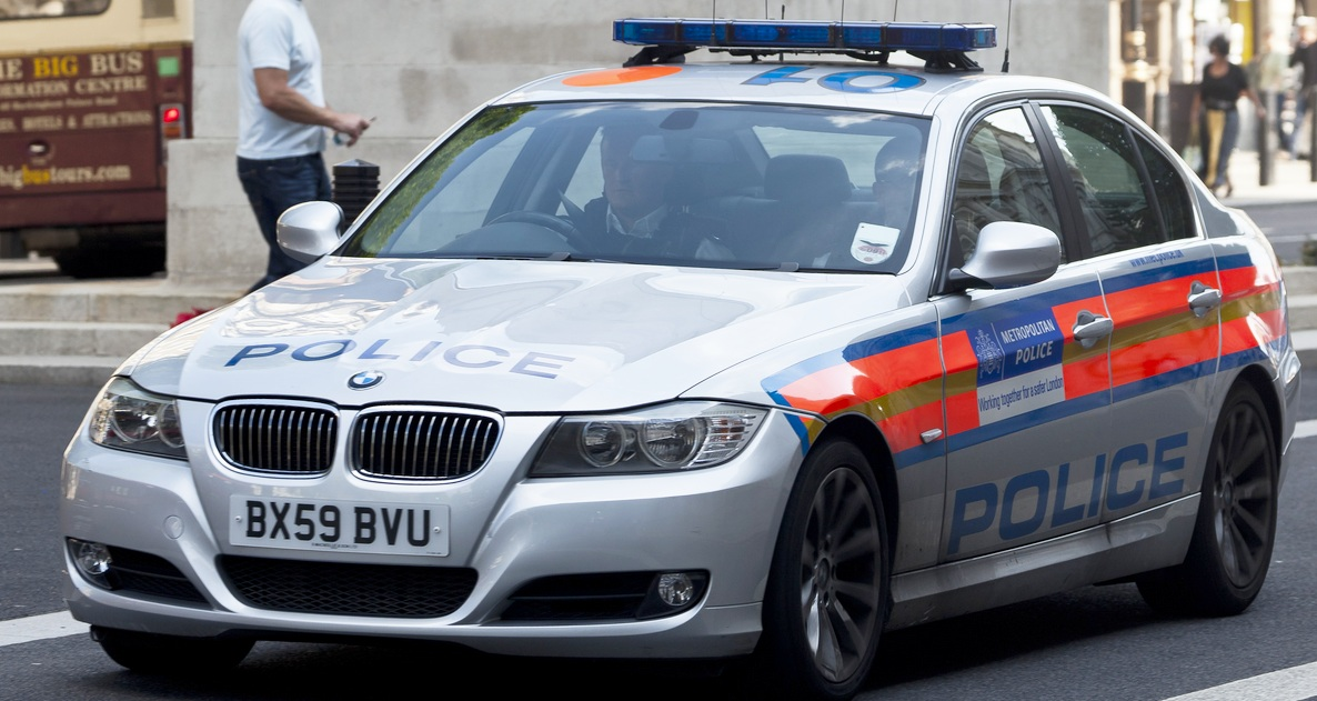 Metropolitan police BMW 3 series